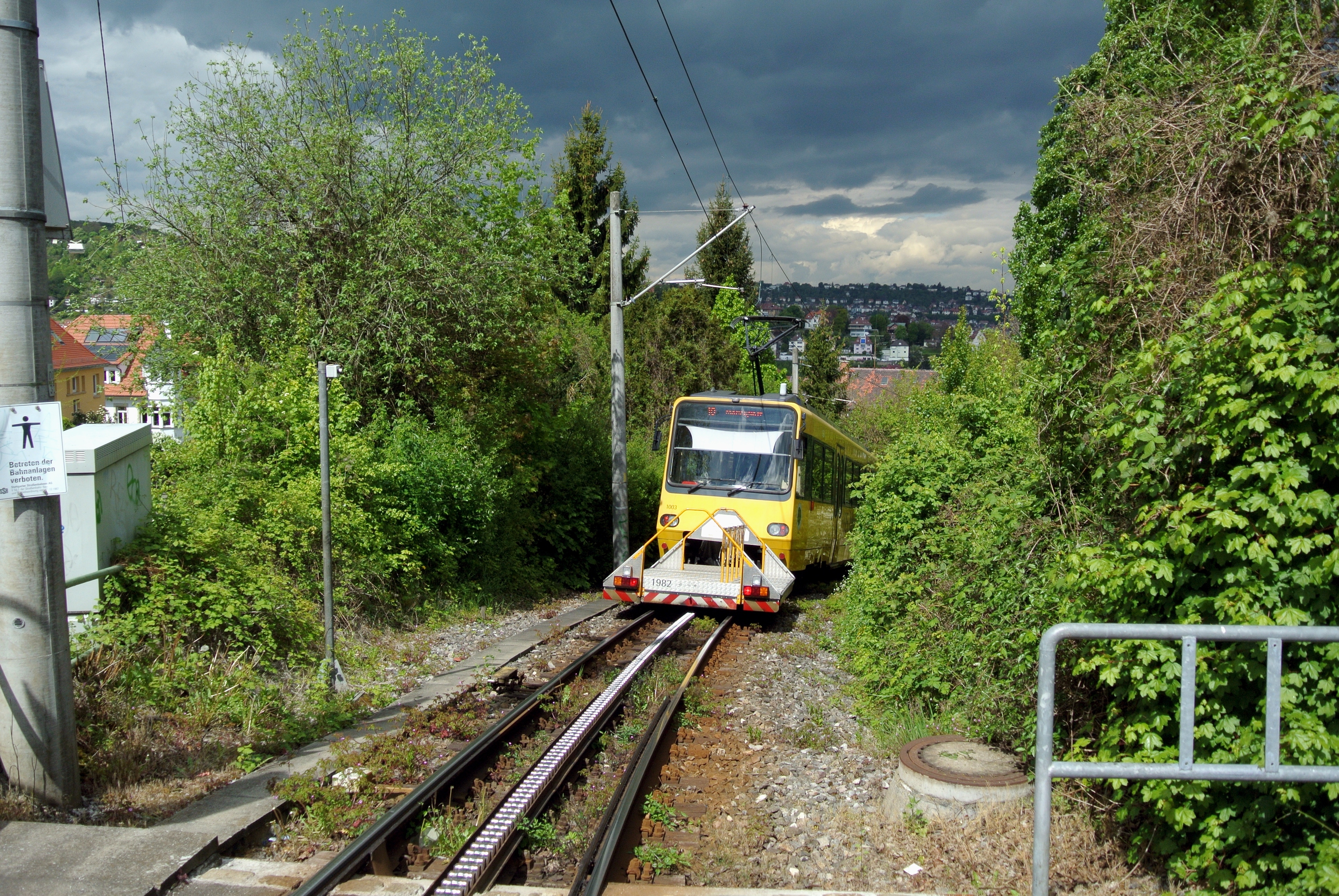 Stuttgart Rack Railway going northwards between Pfaffenweg and Liststraße stations.